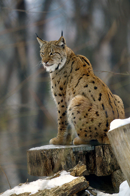 Vigilant lynx, Schönbrunn Zoo, Vienna.